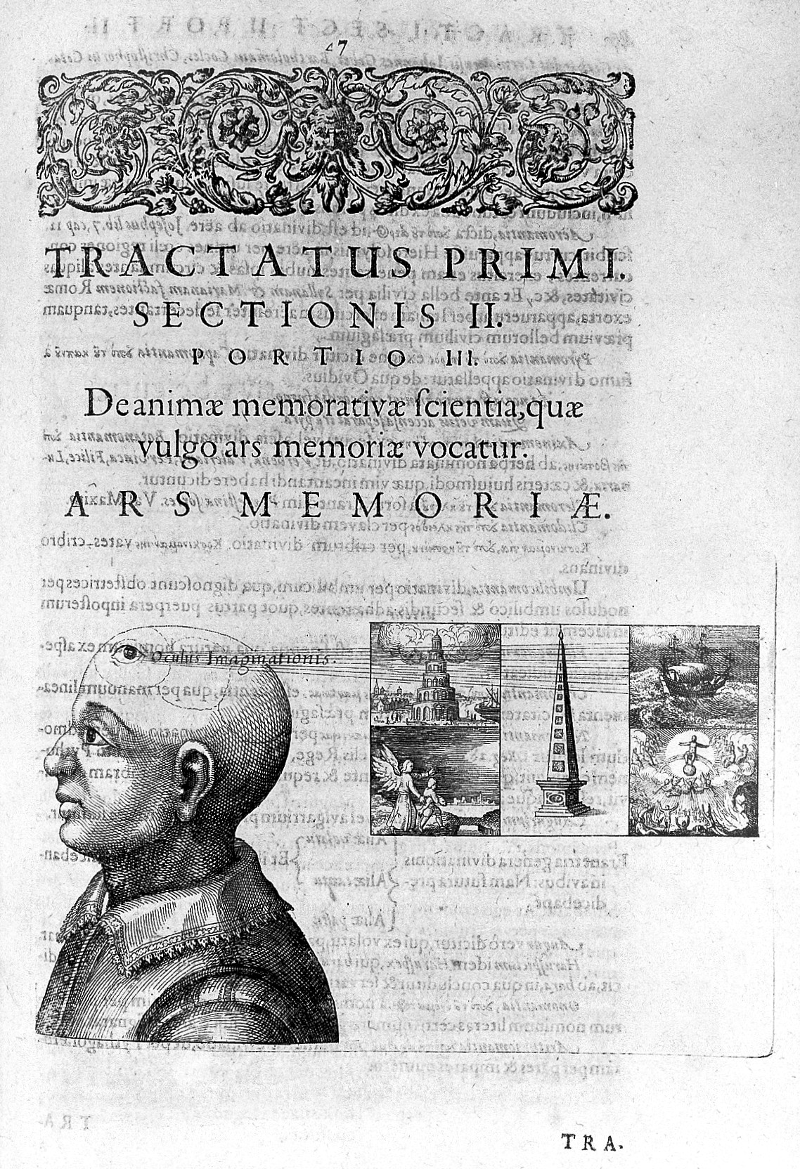 Engraving: art of memory Rare Books Keywords: alchemy, 17th century; cosmology, 17th century; occultism, 17th century; Fludd, Robert